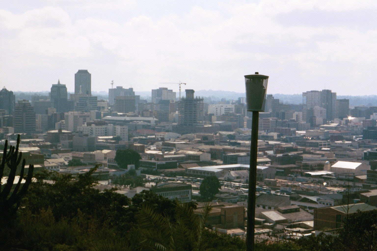 Harare, Zimbabwe from the Kopje